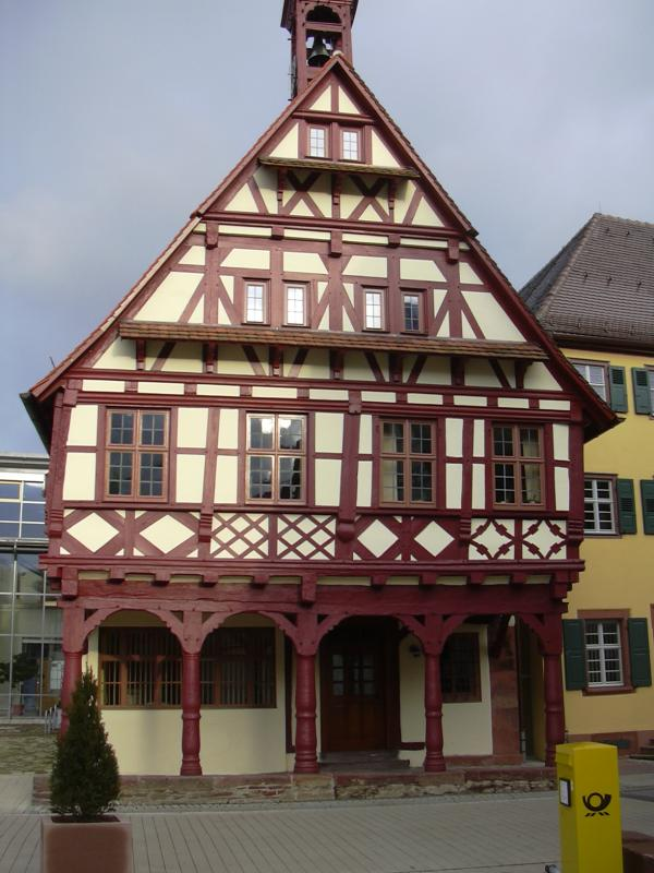 Town hall of Königbach, Baden-Württemberg, Germany